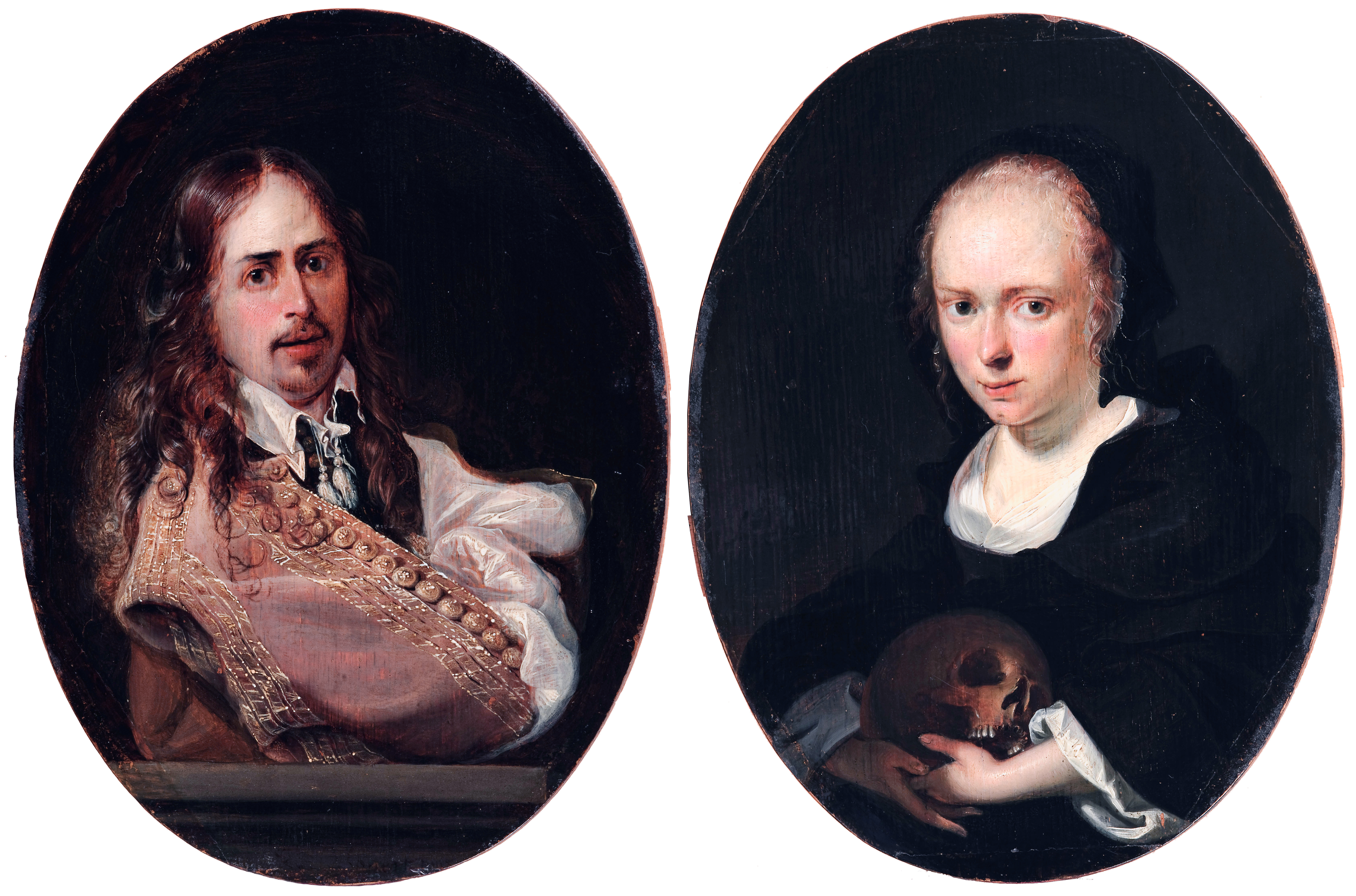 Self-portrait and Portrait of Cornelia Bouwers, the artist’s wife oil on panel 20.3 x 15,7 cm each circa 1650 signed